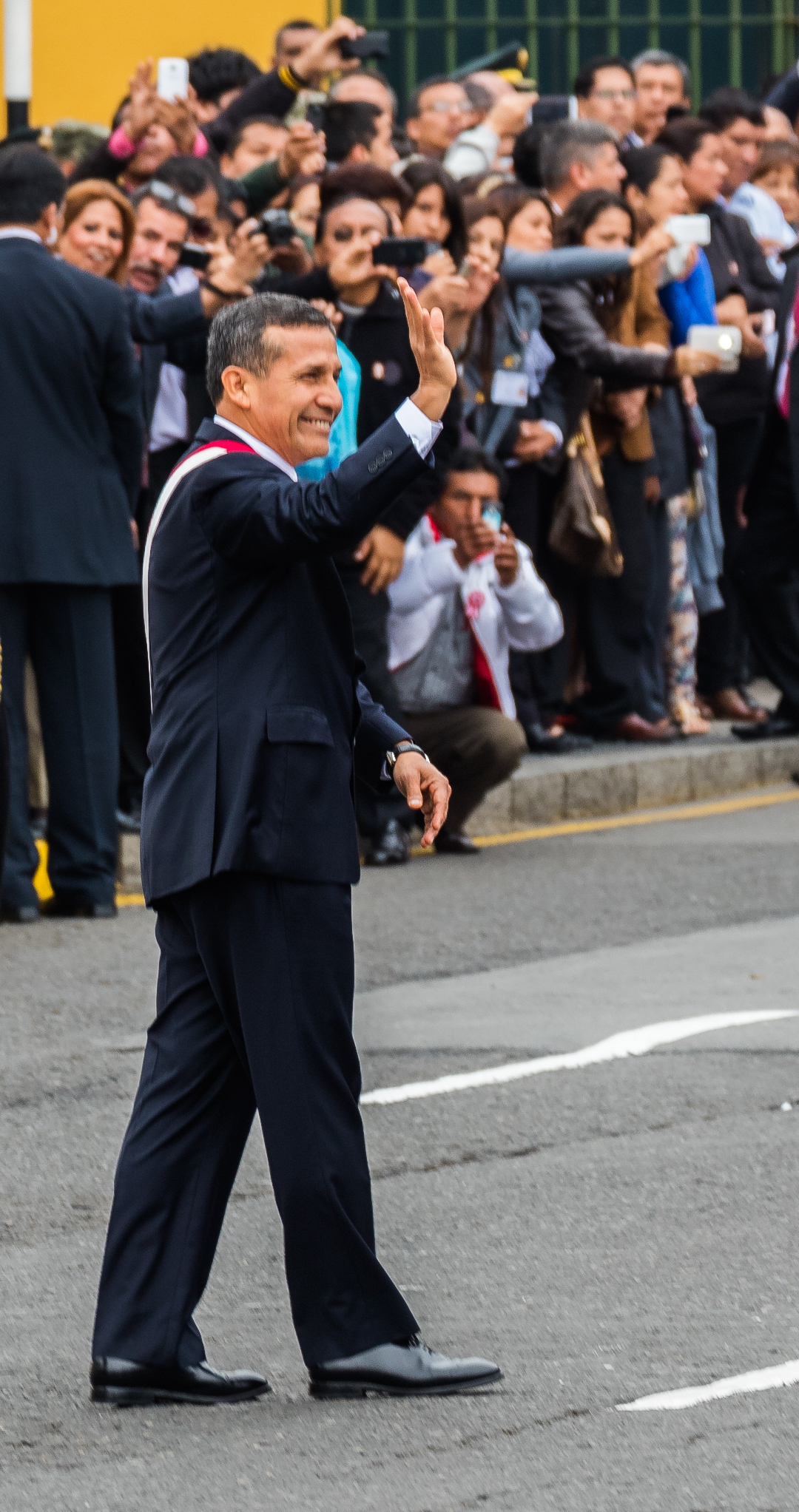 Ollanta Humala, Plaza de Armas, Lima, Peru